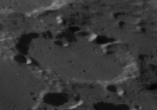 Oblique view of Euctemon, facing west, on the moon.